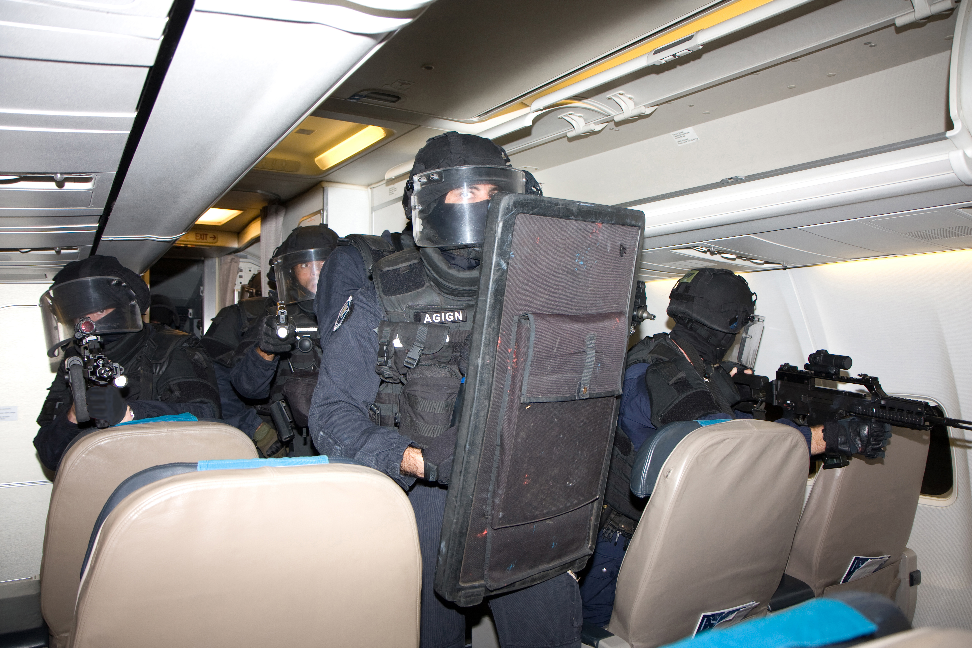 French Gendarmerie AGIGN counter terrorism training